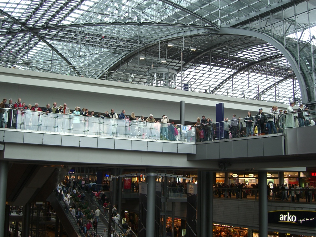 Shopping floors in the Berlin "Hauptbahnhof" (central station)